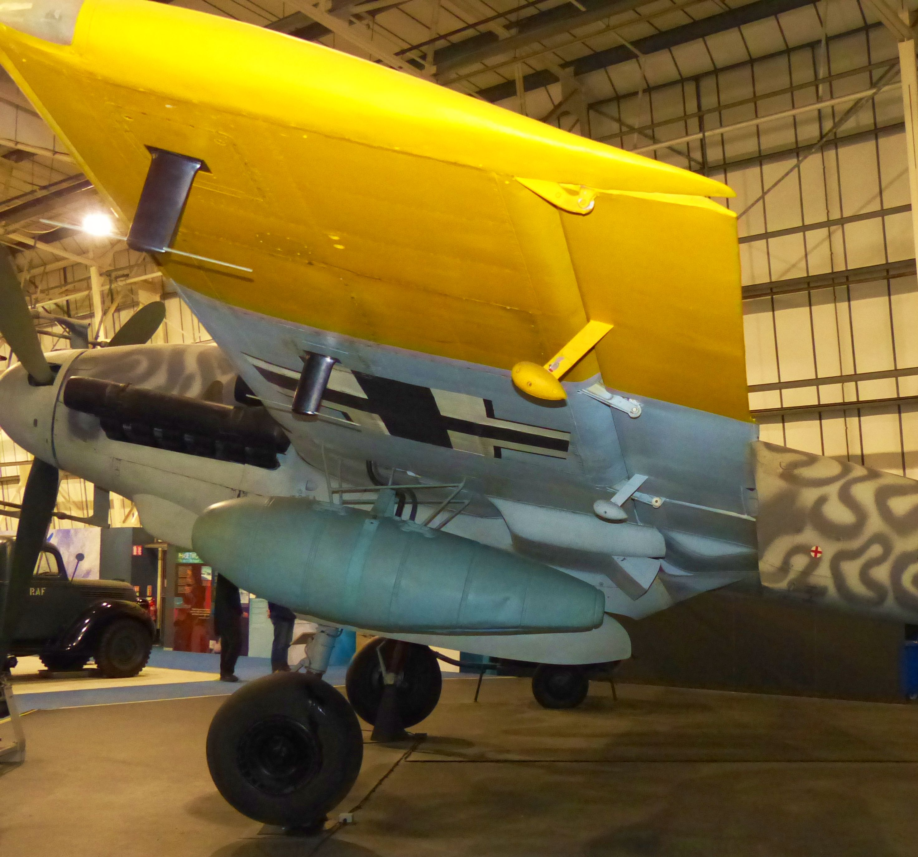 External mass balancing of the ailerons of a Messerschmitt Bf110 long range fighter aircraft. Photograph taken at the RAF Museum Hendon